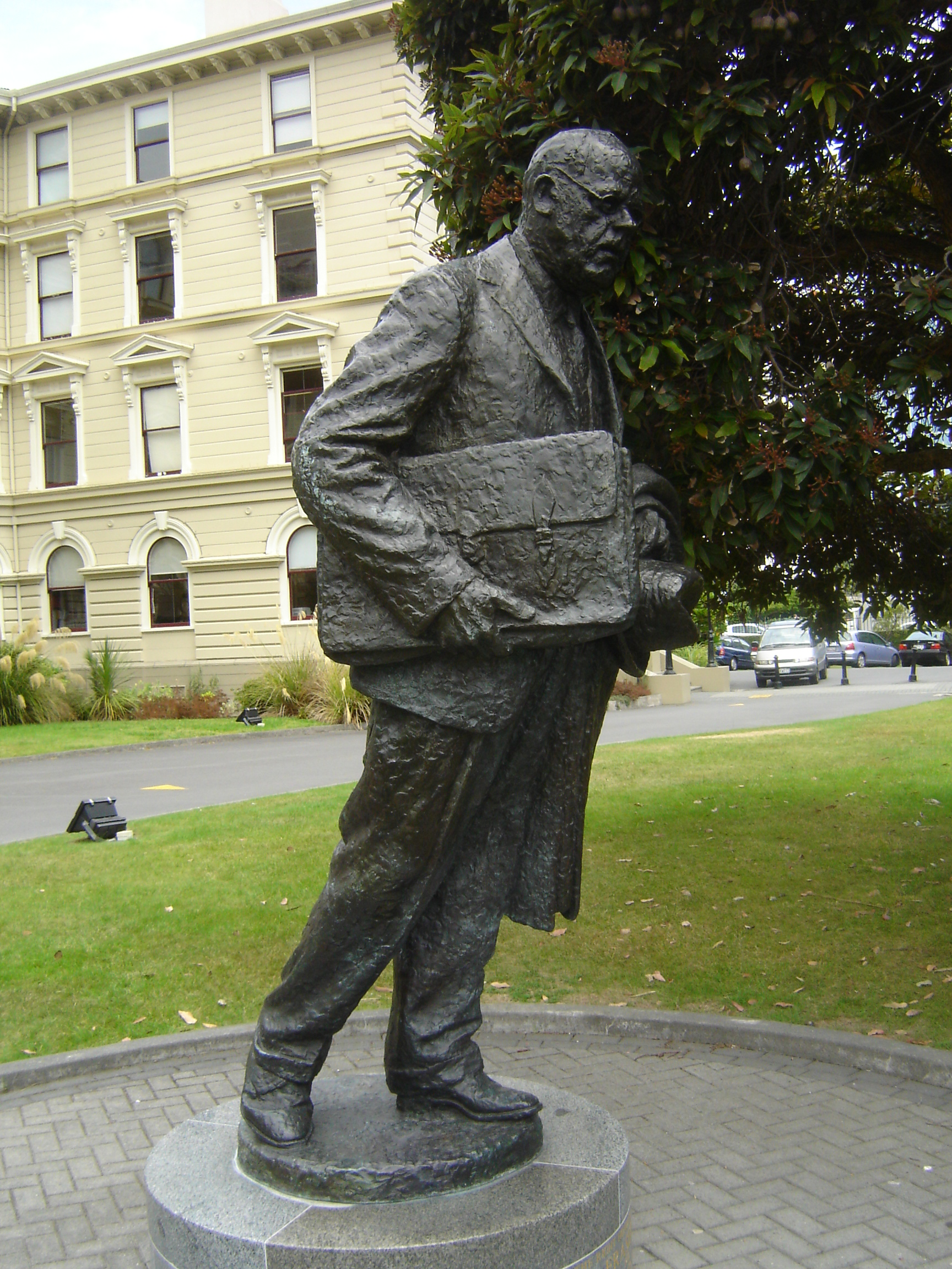 A statue of Peter Fraser outside the Government Buildings Historic Reserve in Wellington.